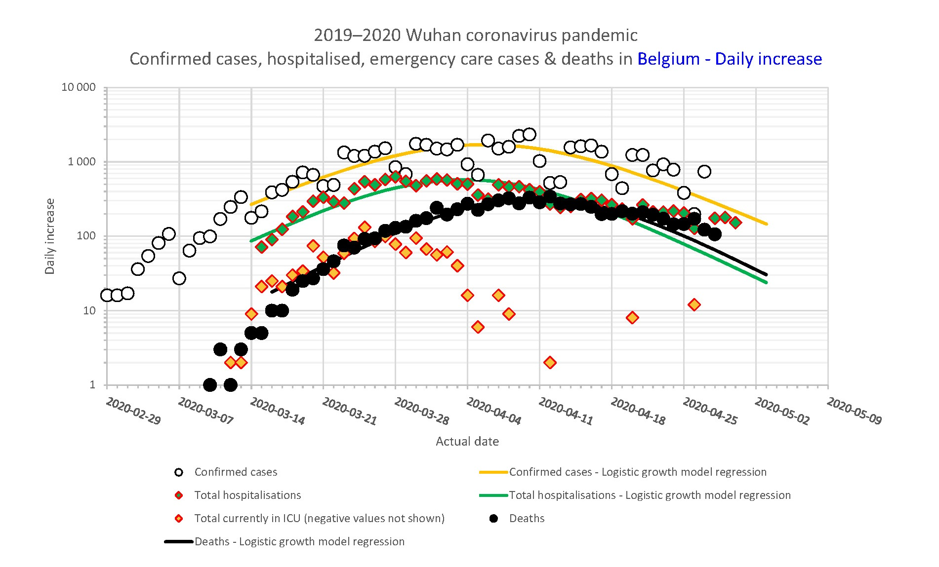 Most recent data on the SARS-CoV-2 pandemic in Belgium - Graph showing the daily increases